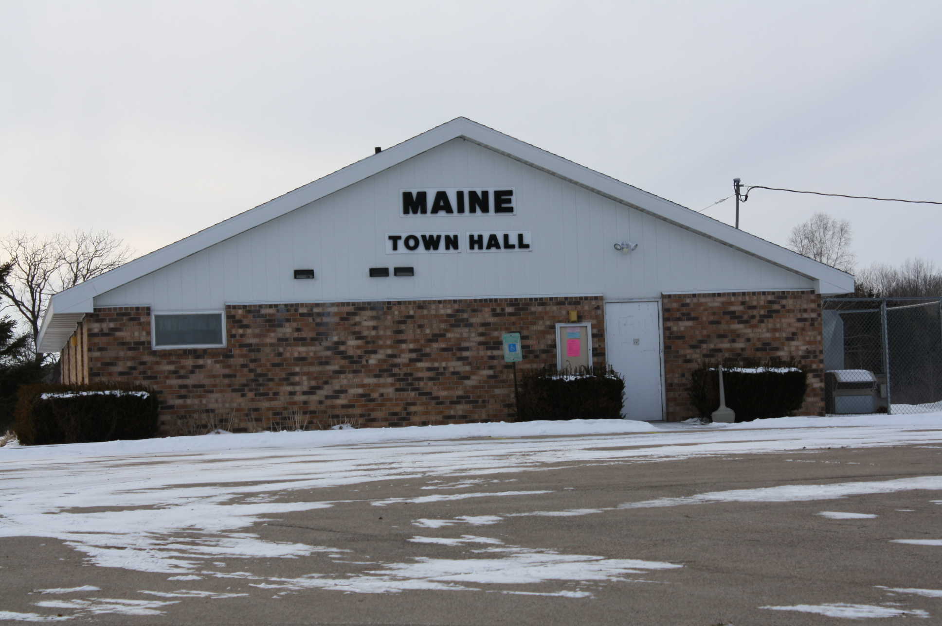 The town hall for the town of Maine, Outagamie County, Wisconsin on Wisconsin Highway 187.